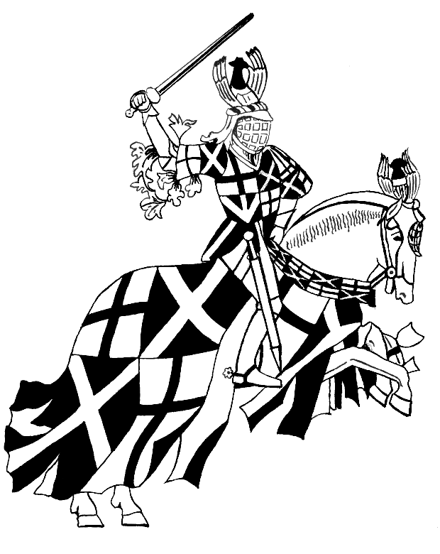 Line art drawing of caparison.